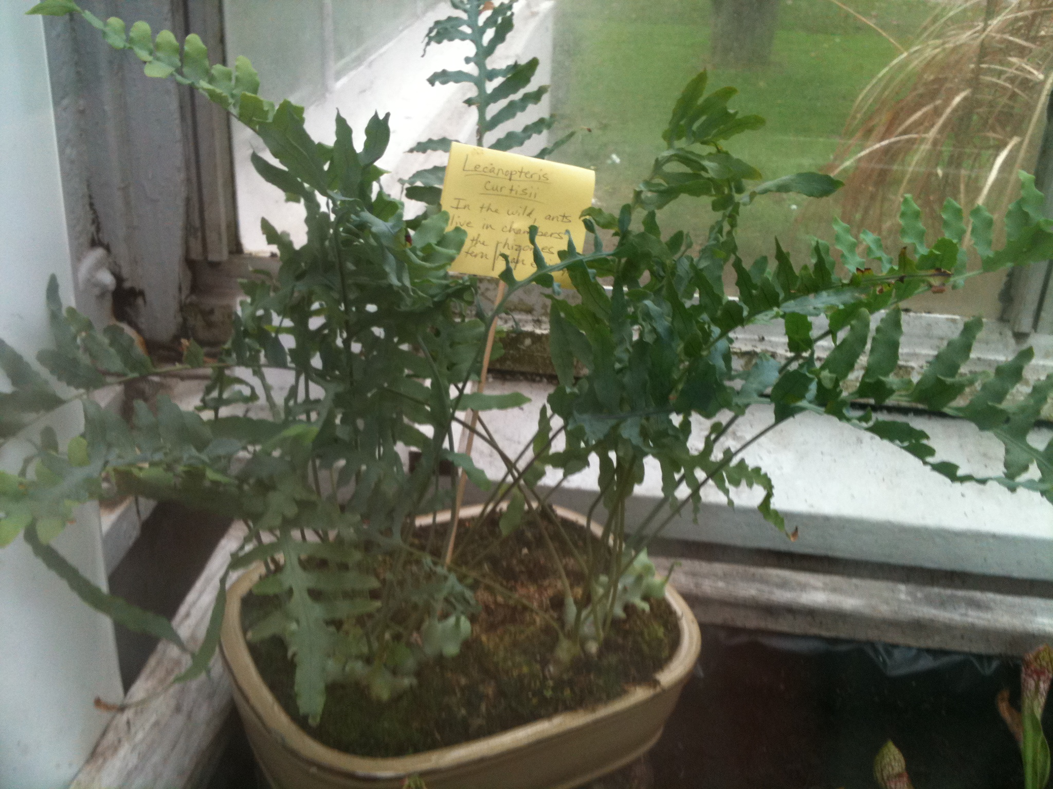 Lecanopteris curtisii on display at the Oak Park Conservatory, Oak Park, IL